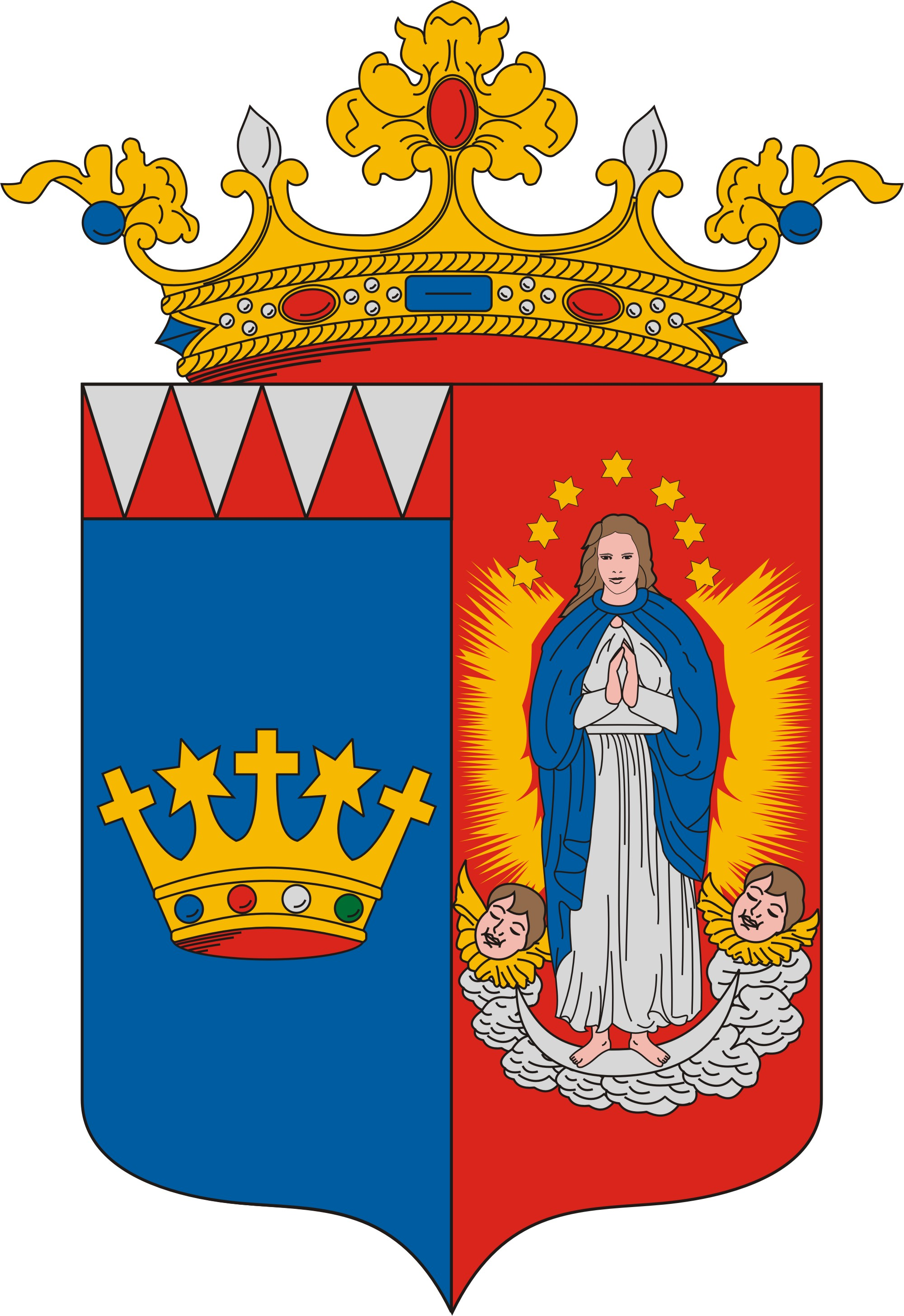 Coat of arms of Gyula, Hungary